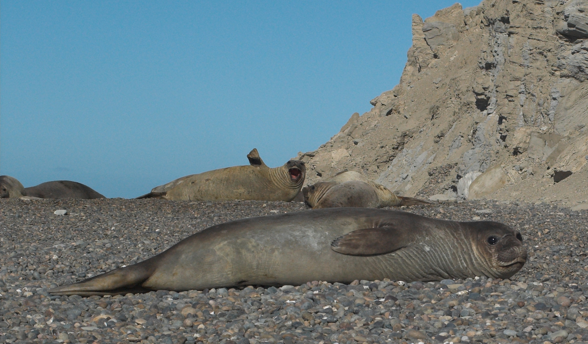 Sea Elefant in Punta Ninfas, on the shores of Patagonia south of Valdes Peninsula.